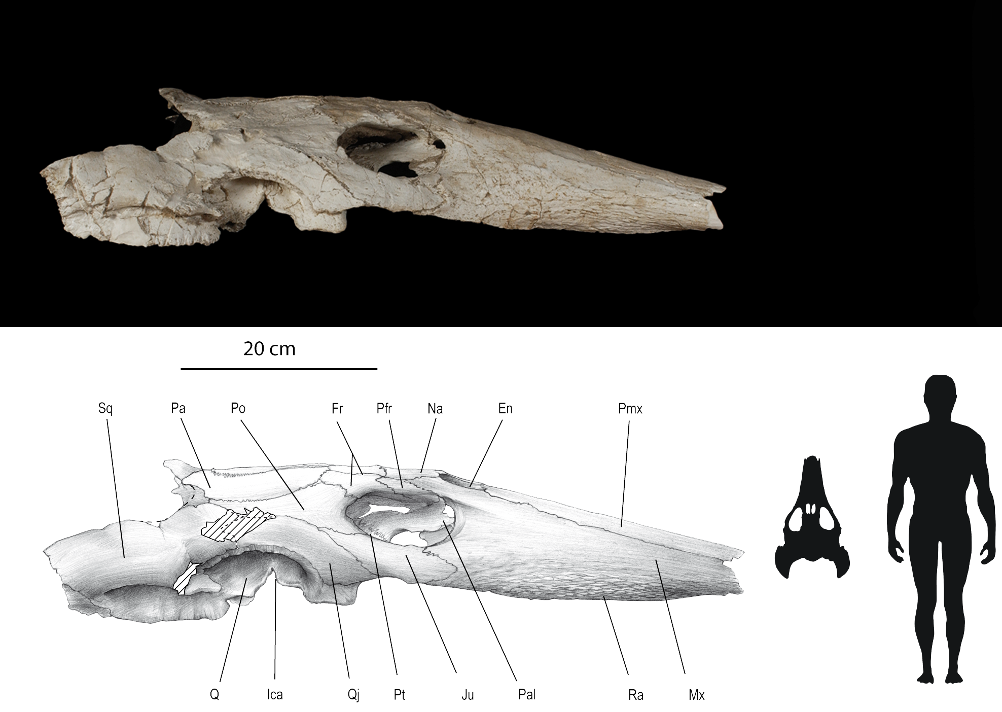 Ocepechelon bouyai gen. et sp. nov., right lateral view of the skull. OCP DEK/GE 516, Holotype, Phosphates (Upper Level III, Upper Maastrichtian, uppermost Cretaceous), Sidi Chennane area (Oulad Abdoun Basin, Morocco). Photograph and interpretative drawing. Abbreviations: En, external nare; Fr, frontal; Ica, incisura columellae auris; Ju, jugal; Mx, maxilla; Na, nasal; Pa, parietal; Pal, palatine; Pfr, prefrontal; Pmx, premaxilla; Po, postorbital; Pt, pterygoid; Q, quadrate; Qj, quadratojugal; Ra, marks of the rhamphotheca; Sq, squamosal. Scale = 20 cm.